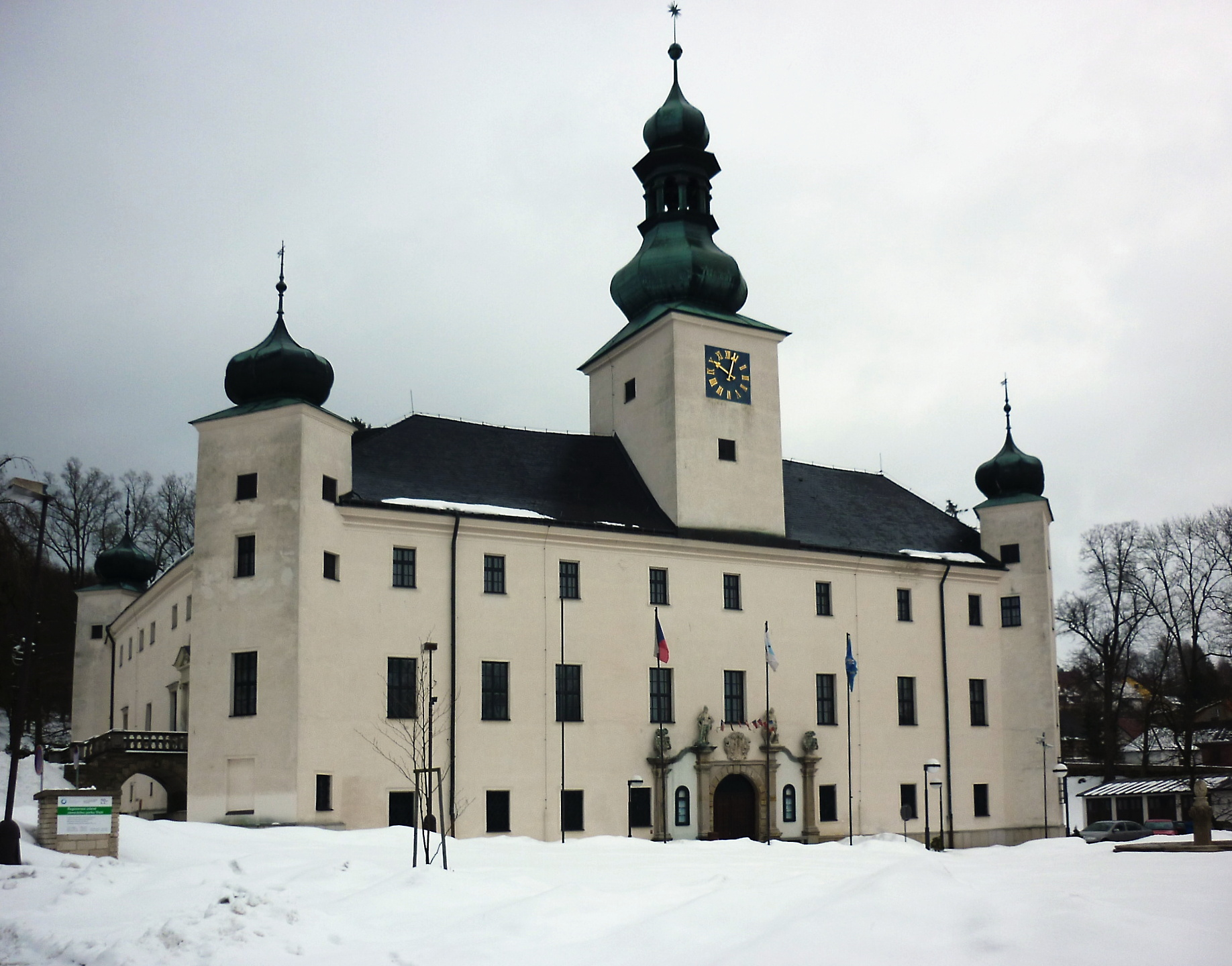 Zámek v Třešti - zima 2010